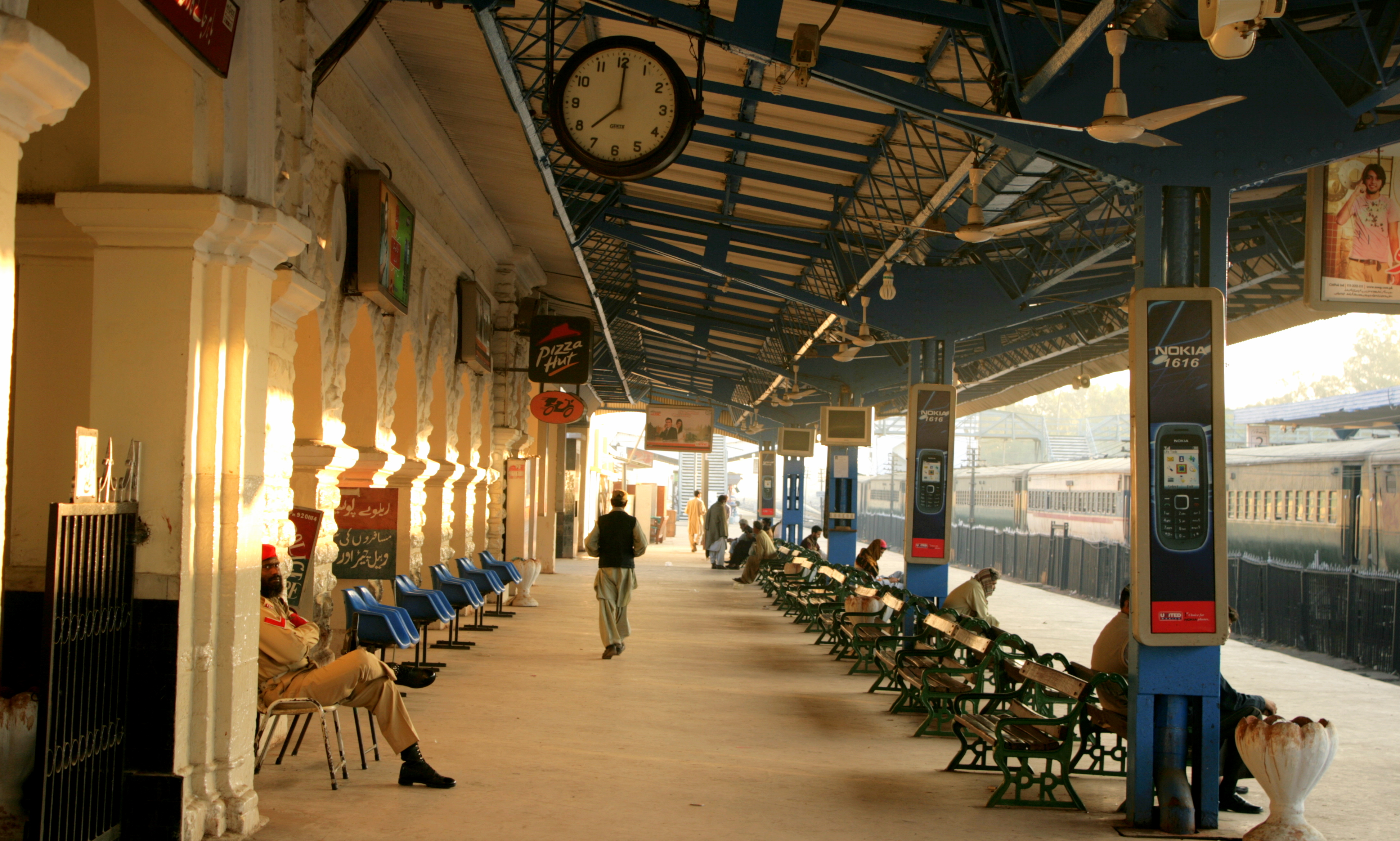 Karachi Cantonment railway station is one of the principal railway stations in Karachi, Sindh, Pakistan. It is situated near Dr. Daudpota Road, Saddar. It was earlier known as Frere Street Station. Construction of the station began in 1896 and was completed in 1898 at a total cost of Rs. 80,000 This is a photo of a monument in Pakistan identified as the SD-P-32